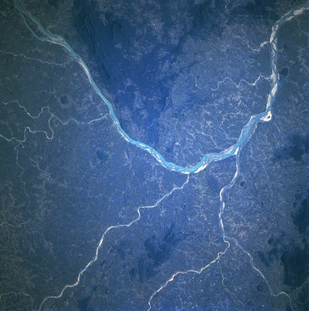 NASA image of Mahanadi River